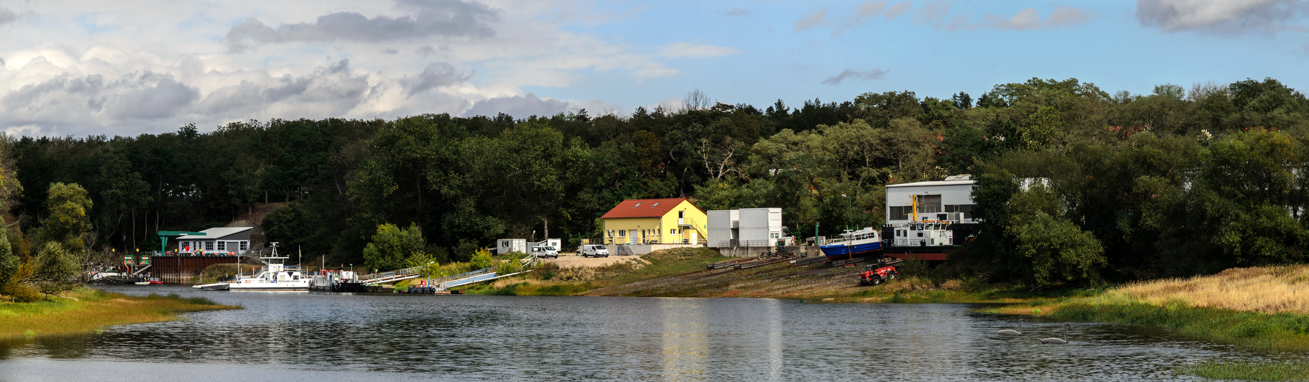 Shipyard Barthel on a branch of the Elbe